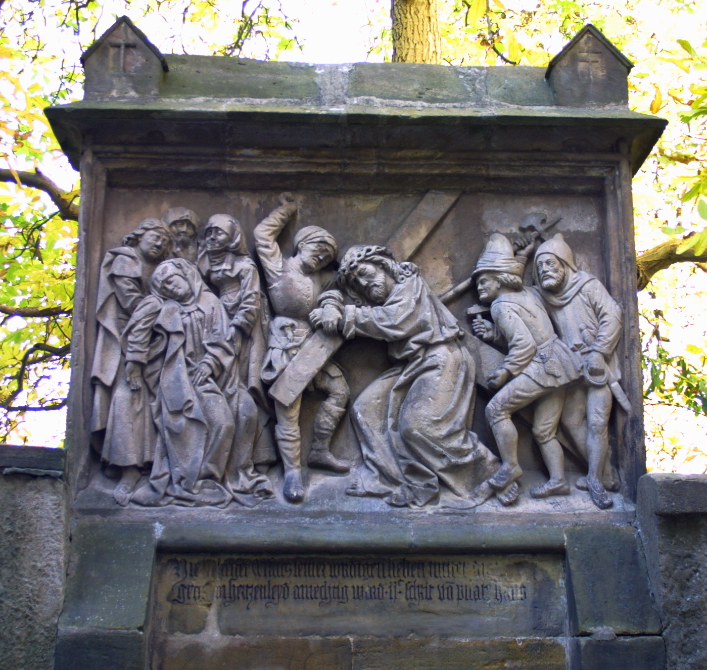 the Bamberg Stations of the Cross